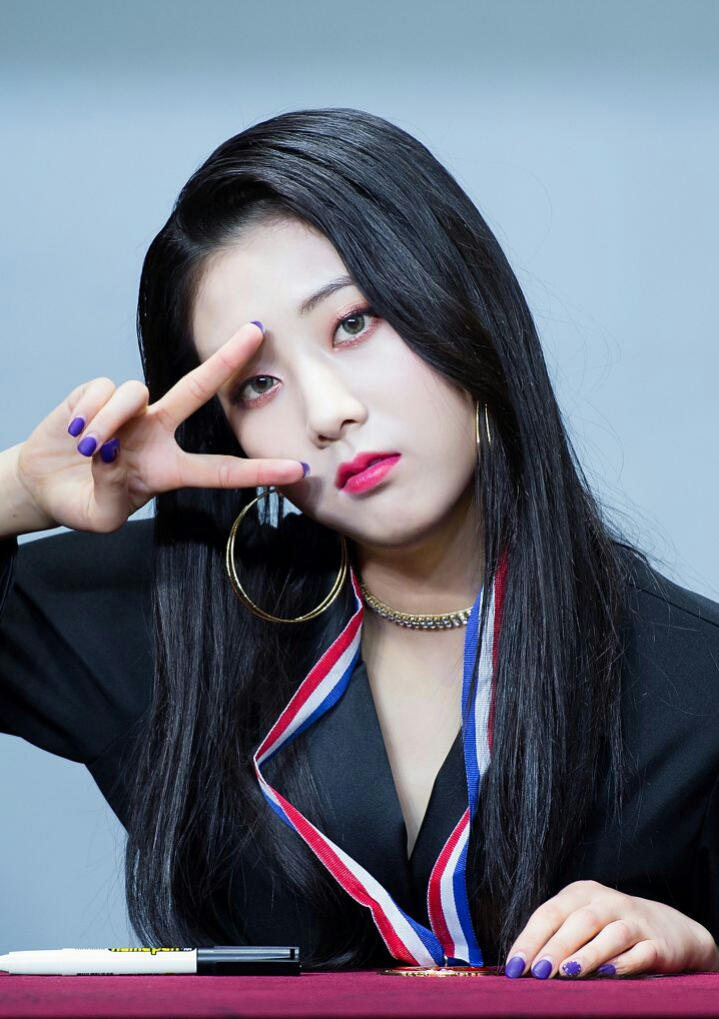 Chang Seung-yeon at Youngpoong Bookstore Gangnam Station Store Fan Sign Event on March 03, 2018.